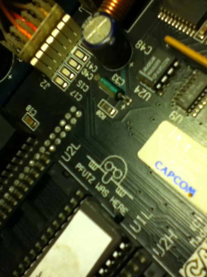 Photograph of a 'Kilroy Was Here' on the CPU Board of a 1996 Capcom Breakshot pinball machine.